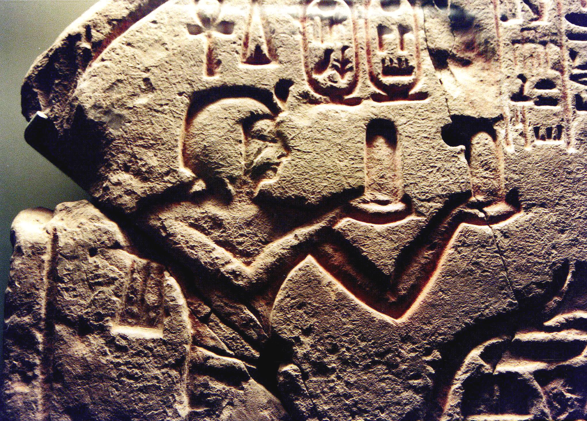 Ramses I making an offering before Osiris. Ansterdam. Alland Pierson Museum